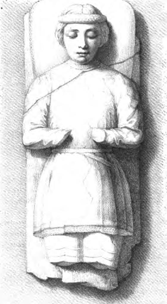 Jacques de Lalaing tomb fragment, lithography by J. Lapotre, Doua